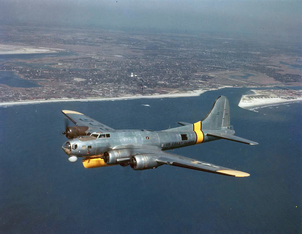 A U.S. Coast Guard Boeing PB-1G Flying Fortress search and rescue plane in flight. The USCG used 18 former USAAF SB-17G from 1945 to 1959.